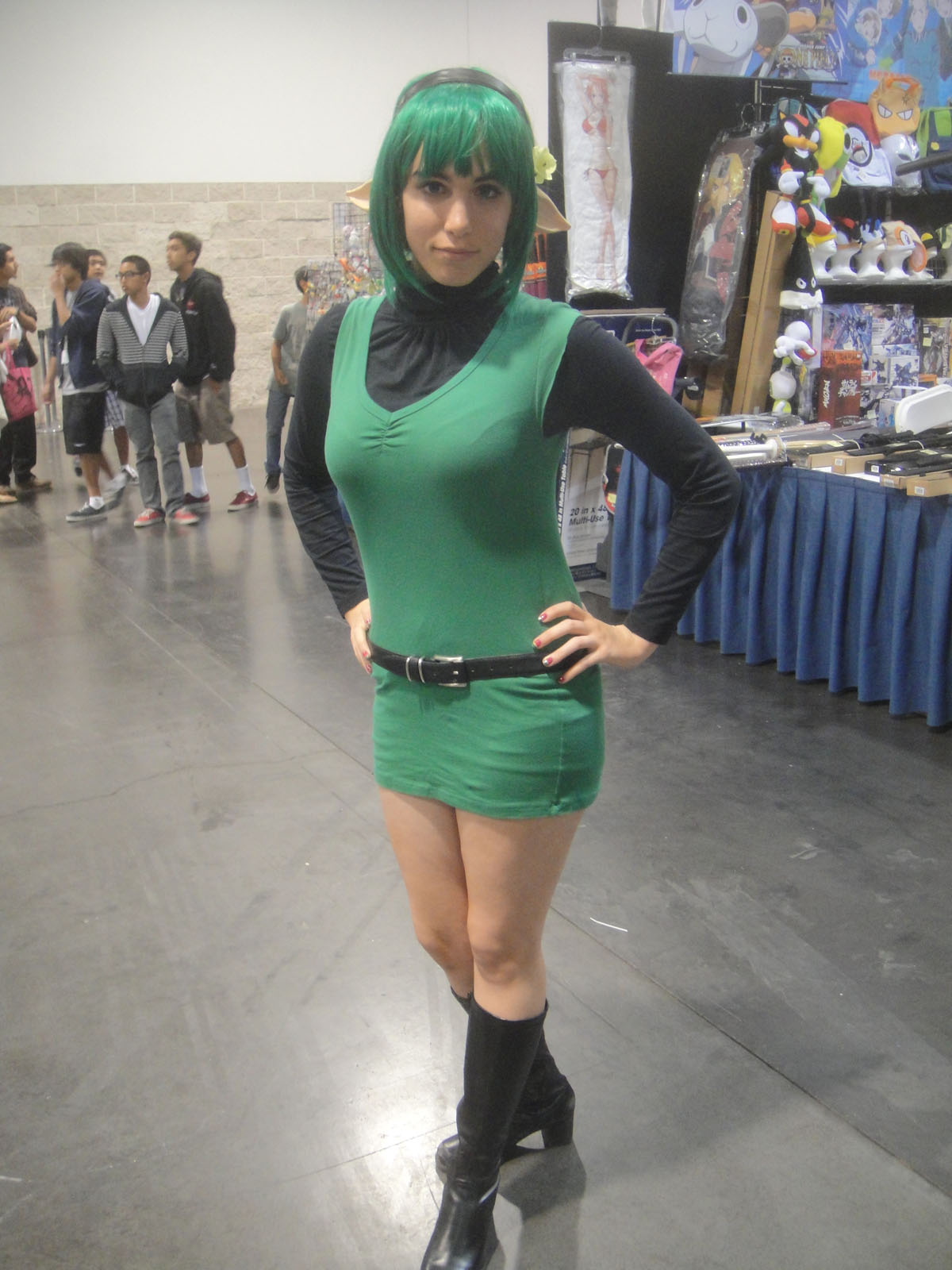 AM2 Con 2012 cosplay